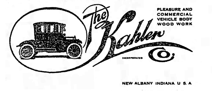 The Kahler Co. letterhead artwork circa 1917.